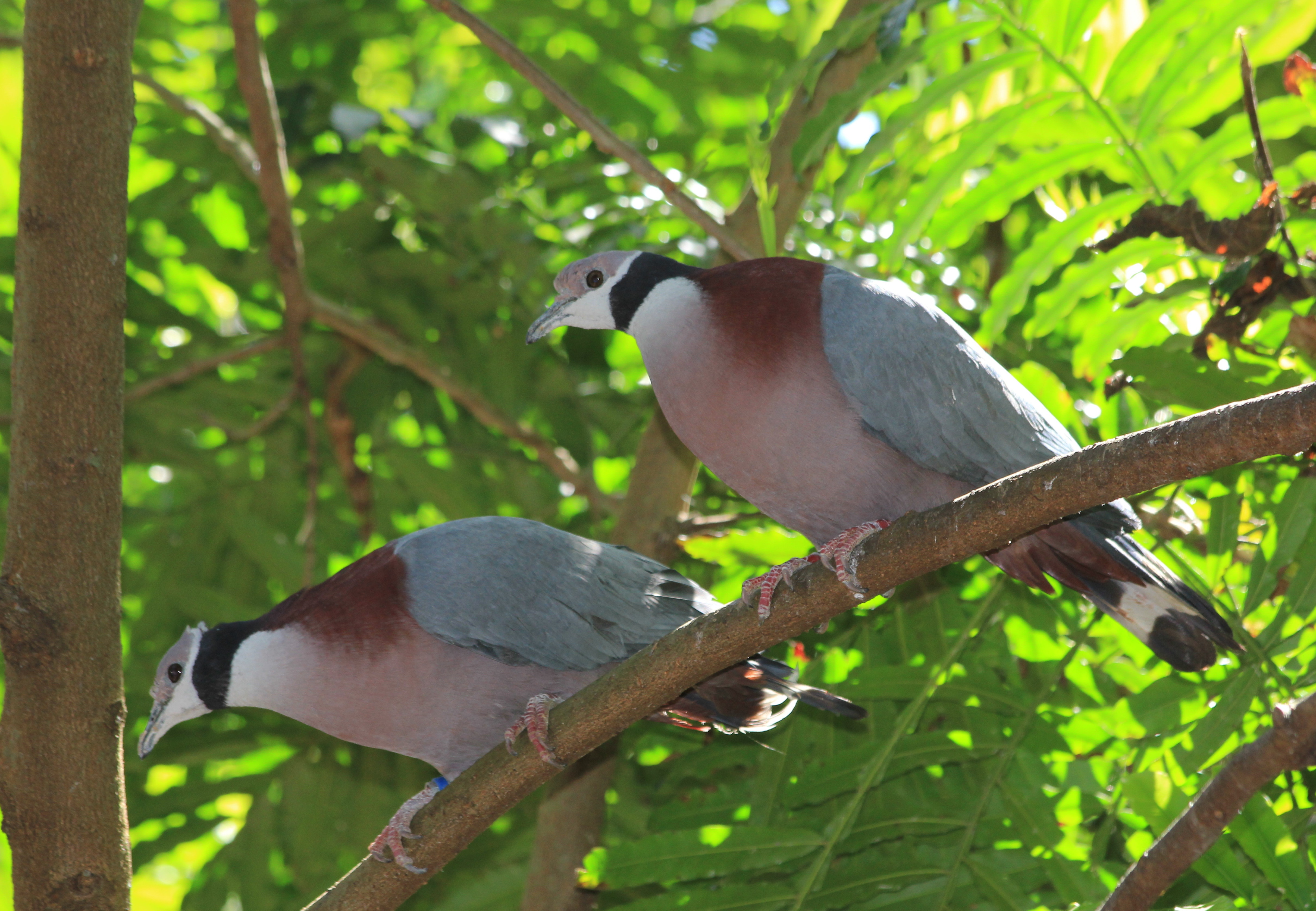 COLLARED IMPERIAL PIGEON